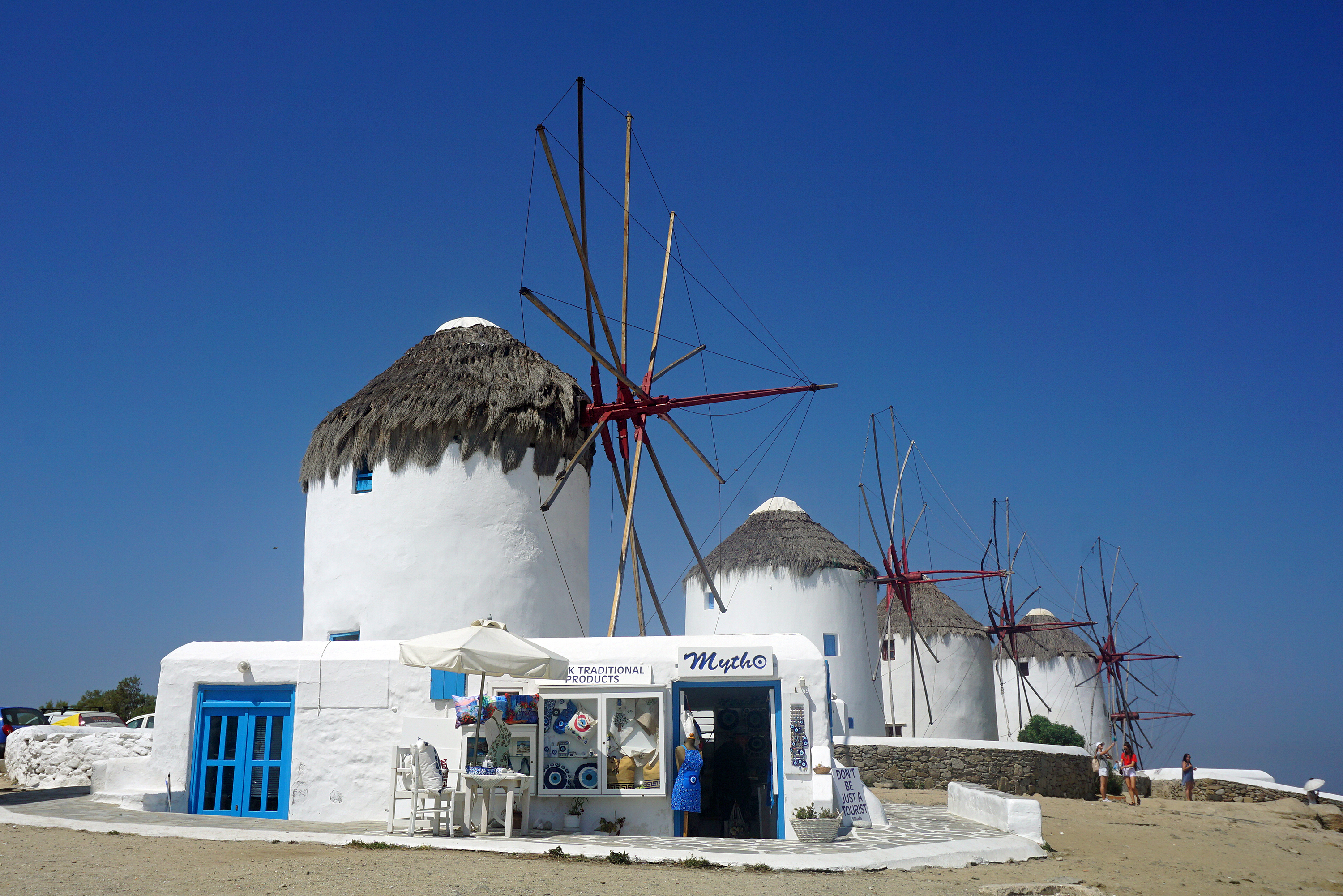 Wind mills in Mykonos, Greece